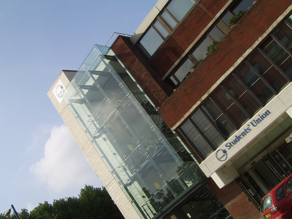 Manchester Metropolitan Students' Union (MMUnion) building on Oxford Road in Manchester, United Kingdom.